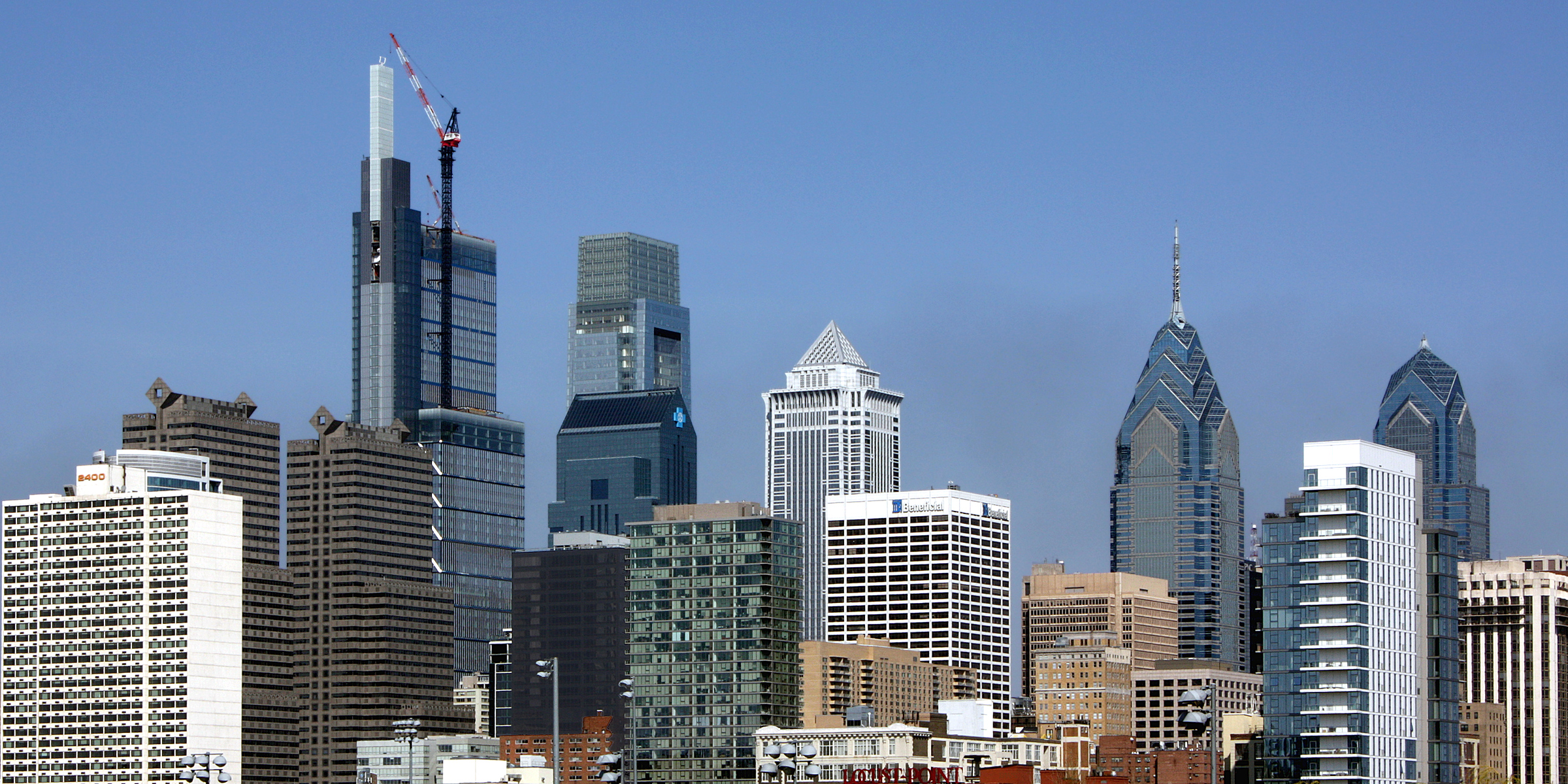 Philadelphia skyline from the west end of the South Street Bridge.